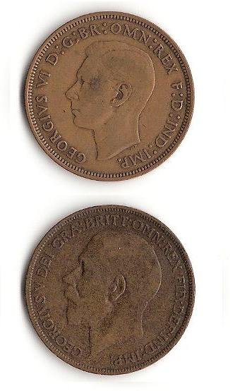 British Pennies from 1926 (George V) and 1945 (George VI). Scanned with HP Photosmart 2575 on October 9th, 2007.